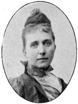 Image scanned from the book "Svenskt Porträttgalleri XX - Arkitekter, Bildhuggare, Målare m.fl. " ("Swedish Portrait Gallery XX - Architects, Sculptors, Painters, ") published 1901